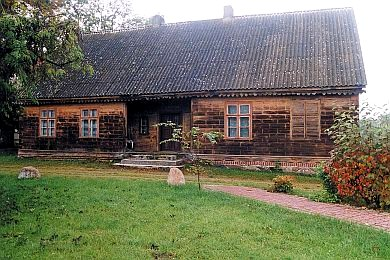 Old rectory in Osiek